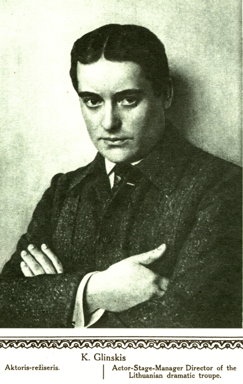 Konstantinas Glinskis, Lithuanian actor, theatre director